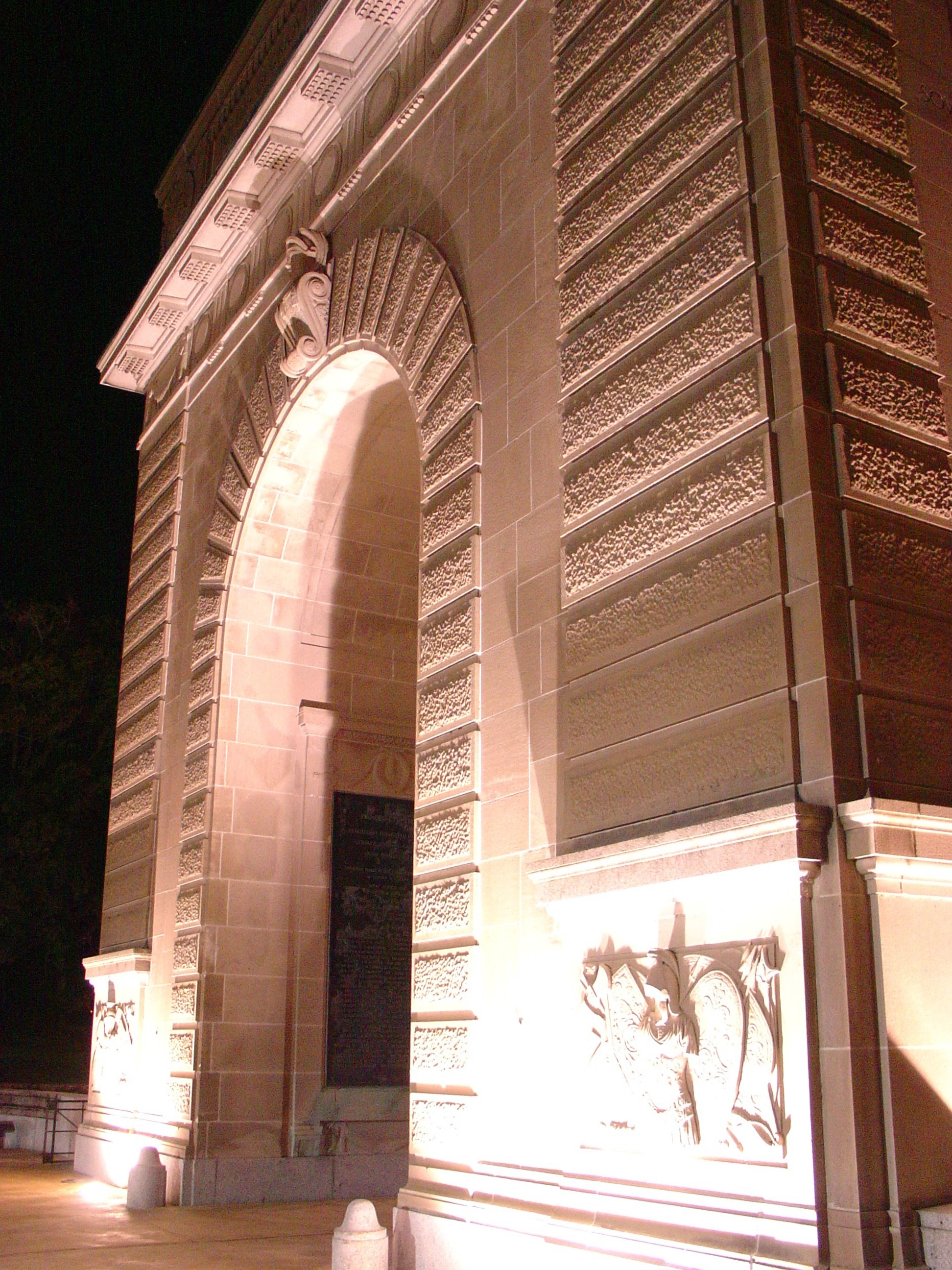 Please, have this description accessible to all by translating it in different languages.